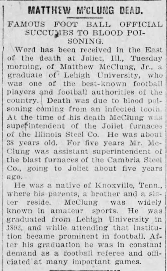 An article announcing the death of noted college football referee and coach Matthew McClung, from blood poisoning. Published in the Allentown Leader in 1908.